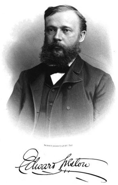 Portrait of Edward Weston the scientist (invented the Weston cell)